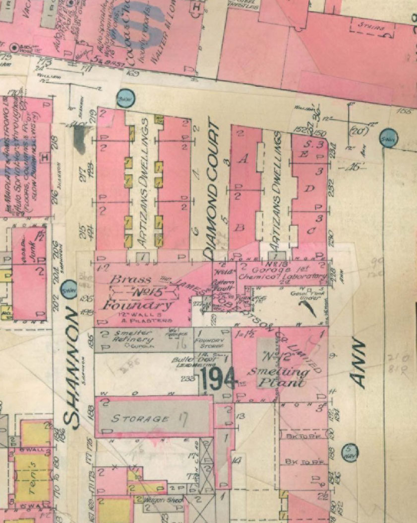 Diamond Court, H.B. Ames' housing project, as seen on this insurance plan of city of Montreal ( Quebec, Canada ) , circa 1909.